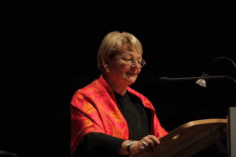 Marie-Josée Jacobs, Minister for Family and Integration and Minister for Equality of Chances, at the opening of the regional culture centre "Cube 521" in Marnach, Luxembourg.